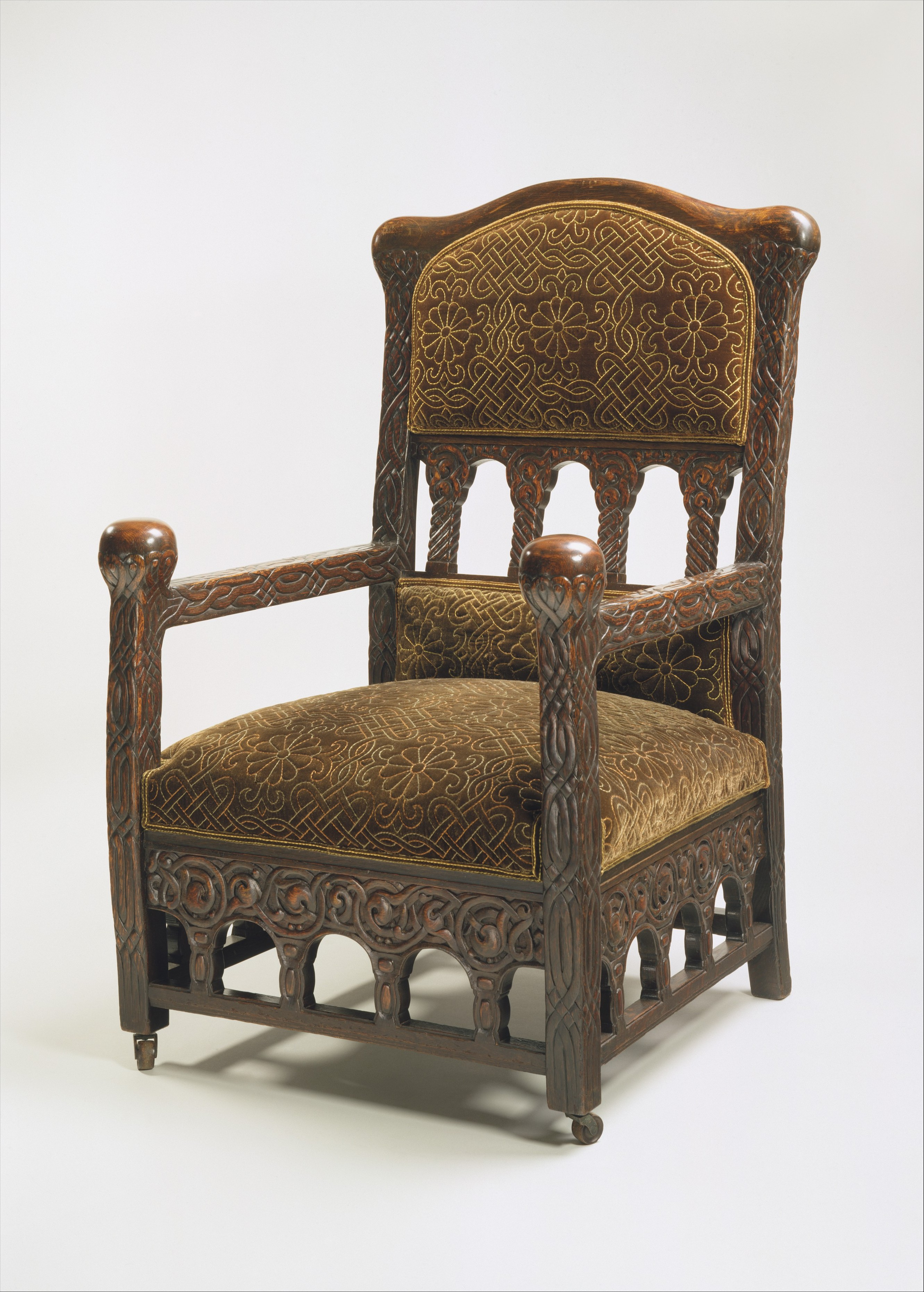 American; Armchair; Furniture